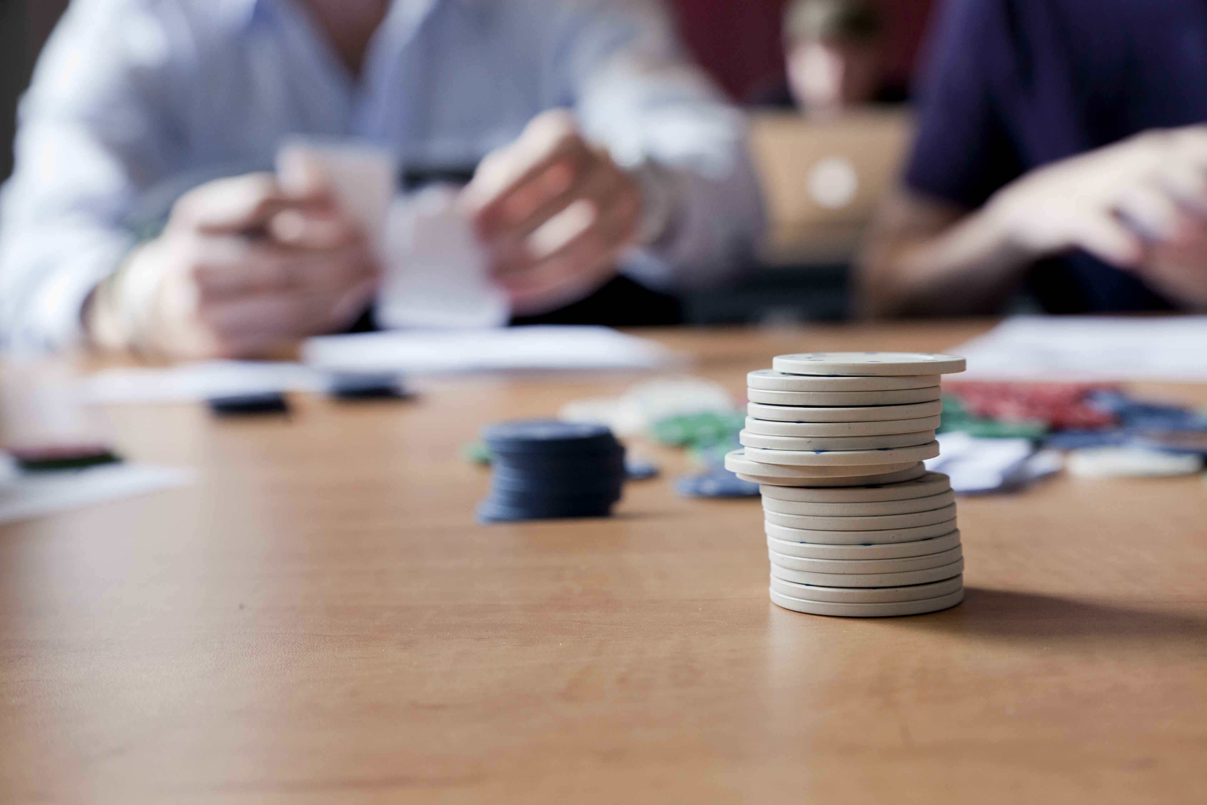 Gamification techniques picture